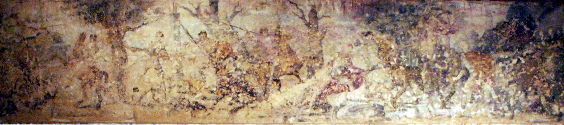 wall painting in the royal tomb at Verghina (Vergina), Macedonia.